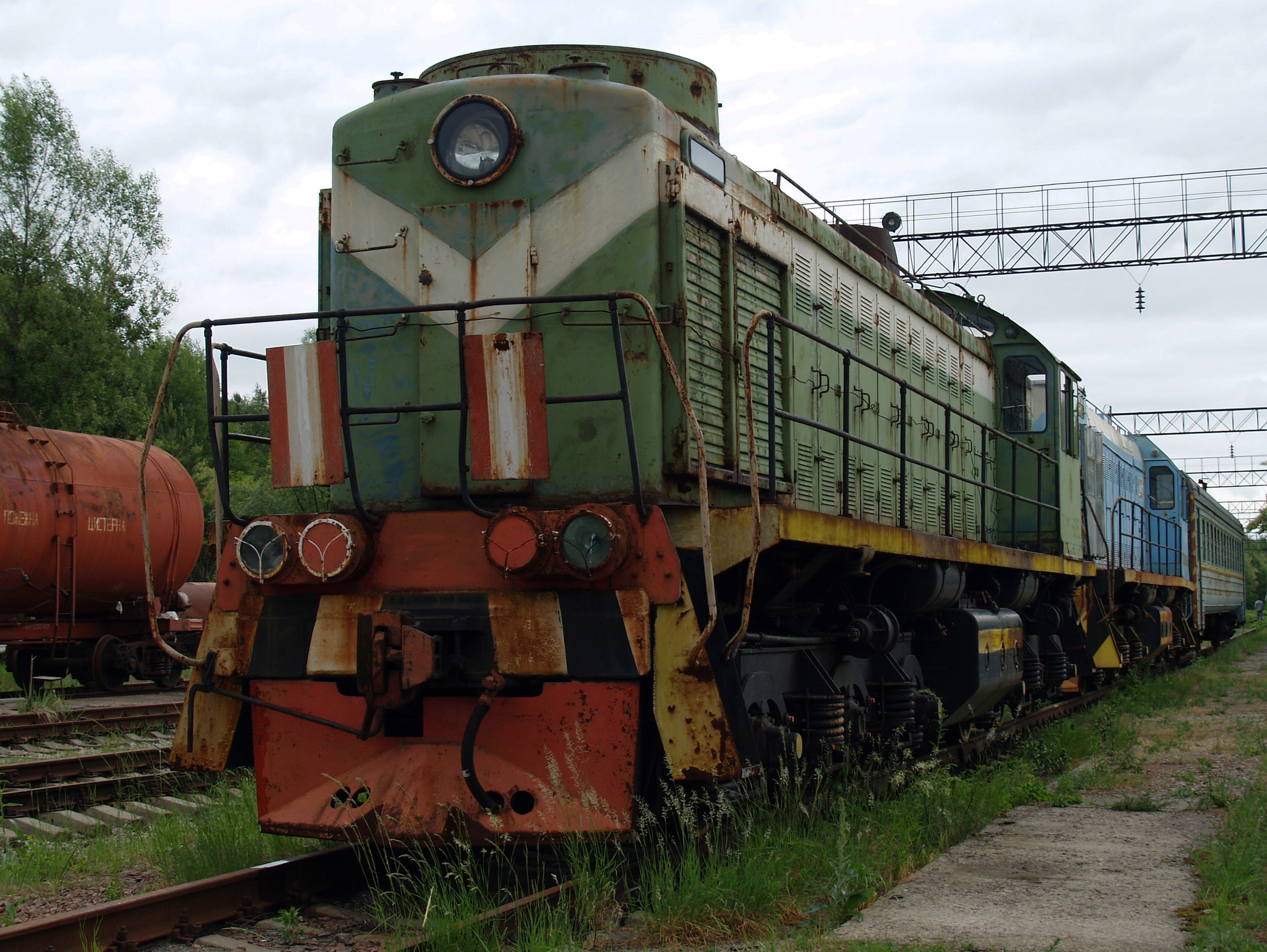 Yaniv Railway Station.